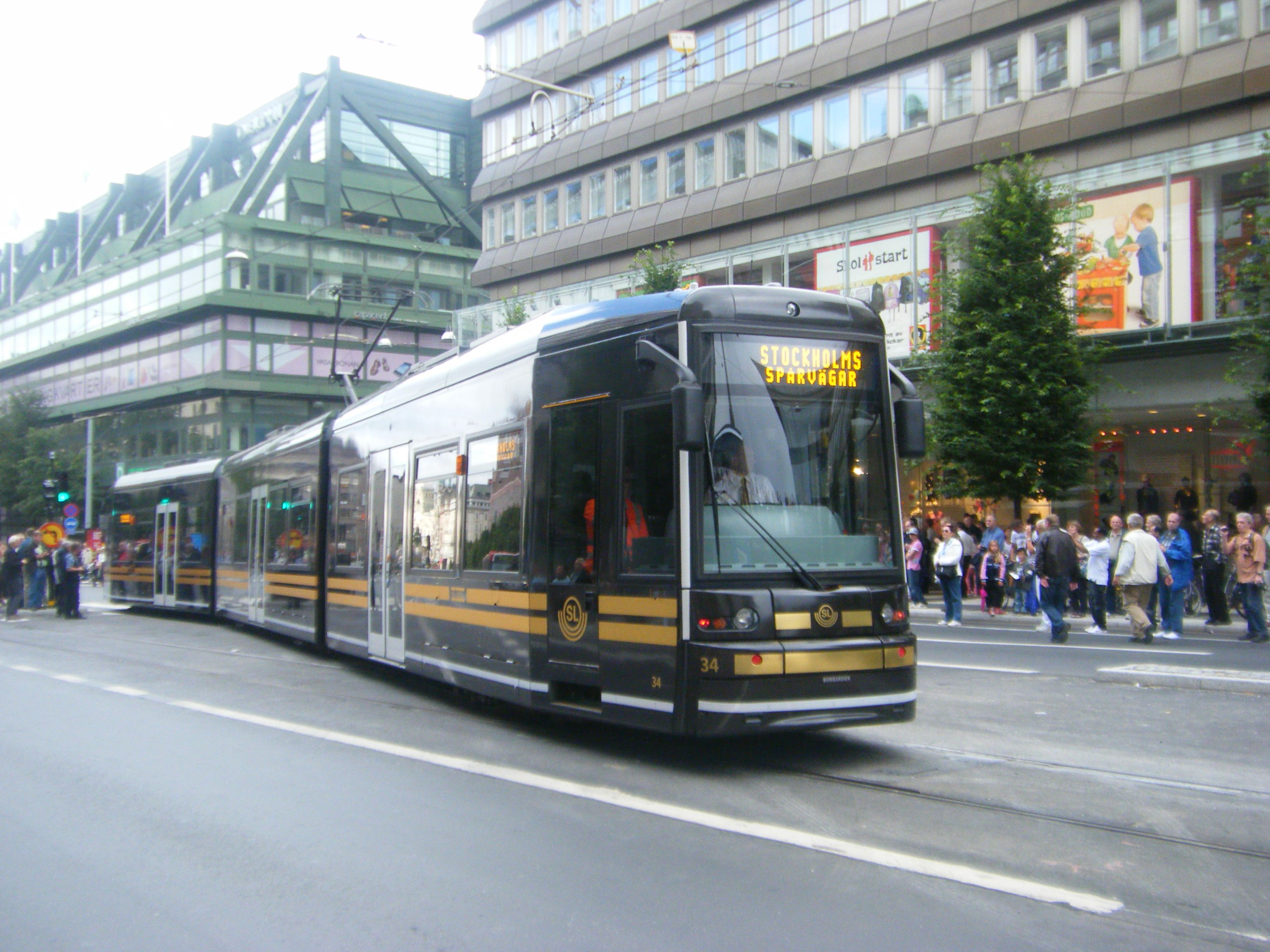 Tram A34 in Stockholm, i bakgrunden Gallerian med fastigheten Trollhättan 30